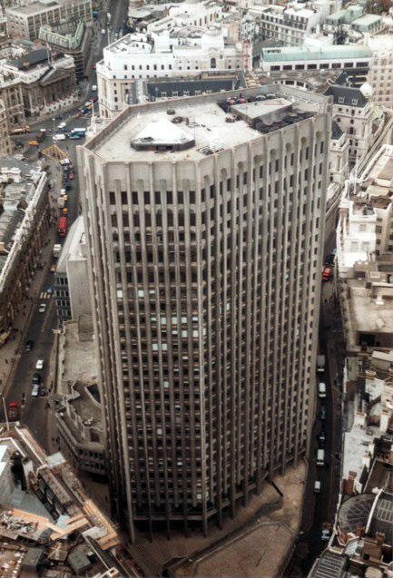 The Old Stock Exchange 1983 Taken from the top of the then Nat West Tower (now Tower 42), it depicts the Old Stock Exchange building. It clearly shows the symbolic coffin shape of the building. From a scanned photograph which I took whilst working in the City.